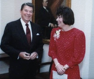 Ronald Reagan and Faith Whittlesey in Cabinet Room.